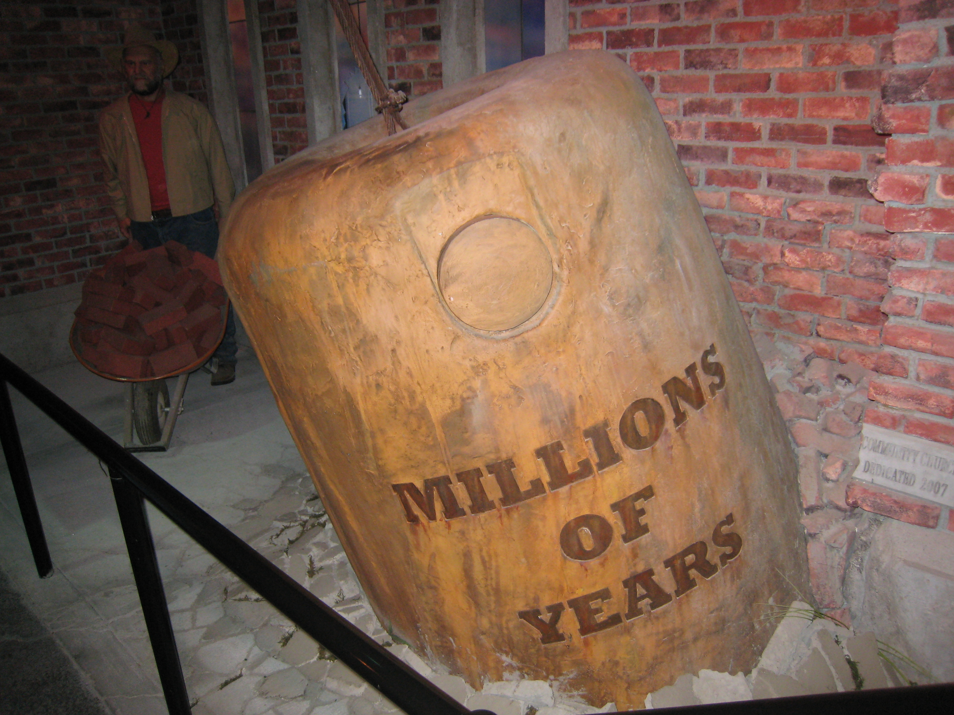 A wrecking ball reading "millions of years"; a metaphor suggesting that acceptance of an old Earth leads to the destruction of society.